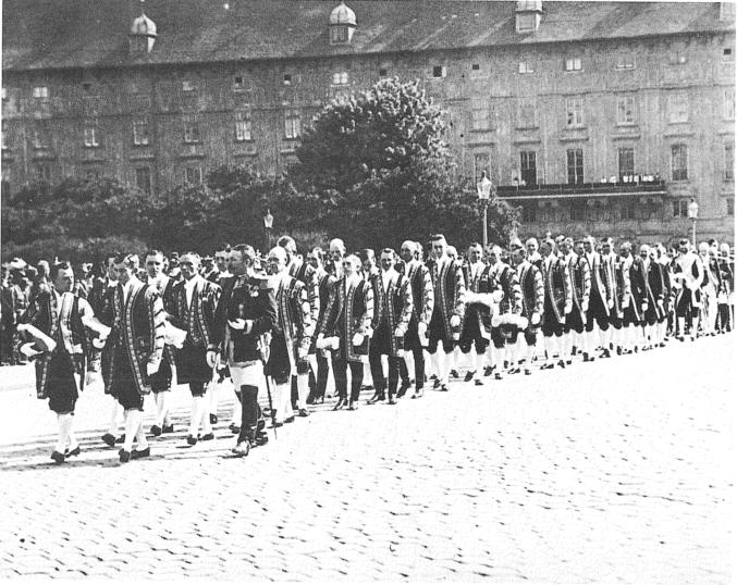 Court staff at a procession at Heldenplatz outside the Hofburg Imperial Palace in Vienna.